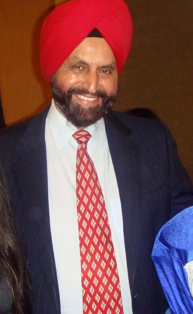 Sant Singh Chatwal at Asian American Human Rights watch Vijay Yesudas, Sanjana Jon on Dance floor